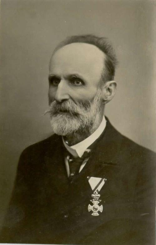 Fran Gerbič (1840-1917), slovene composer and singer